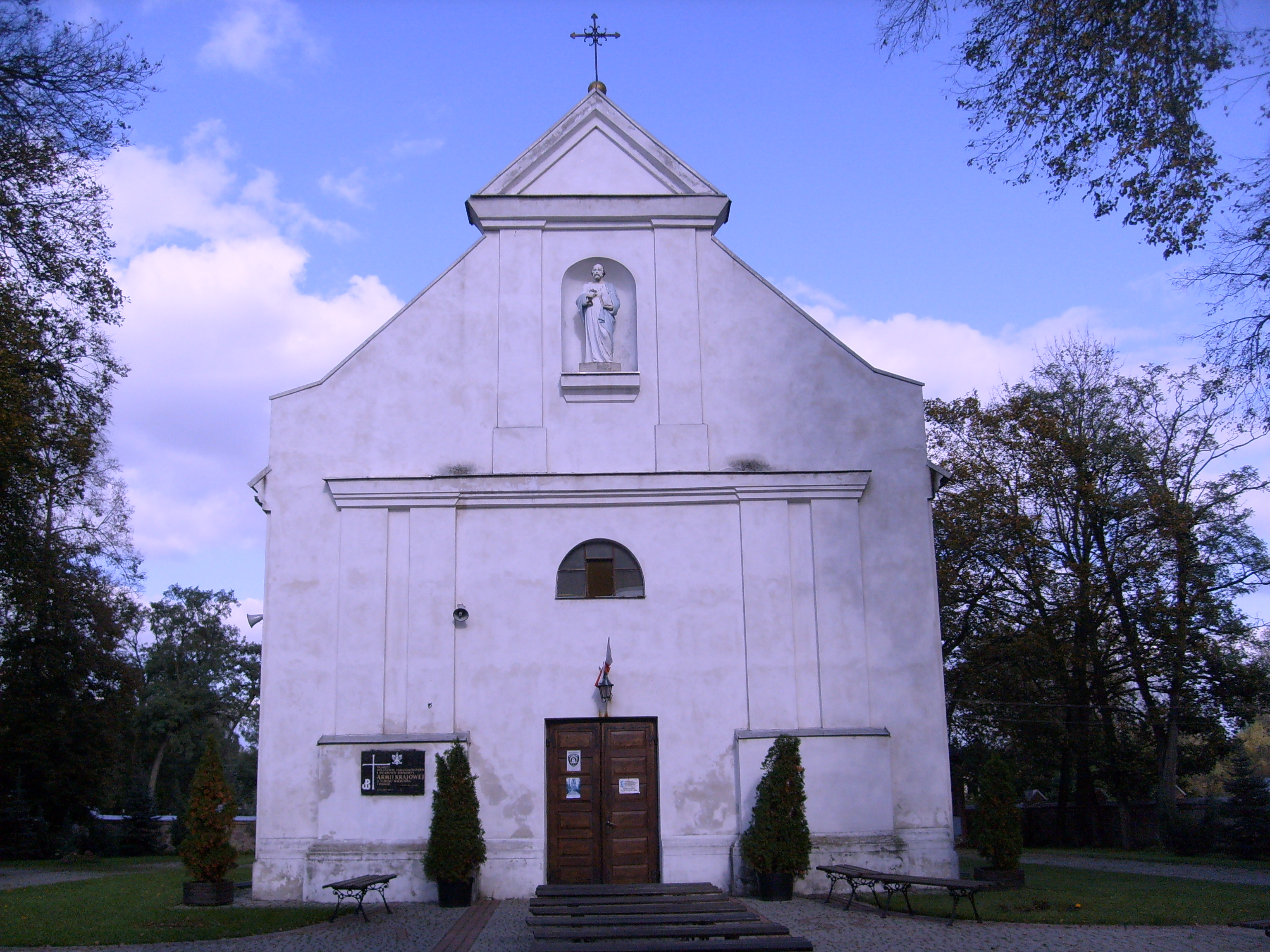 Saints Peter and Paul church in Wierzbno.